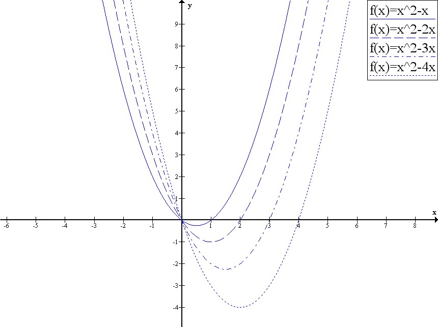 Graphic of these functions